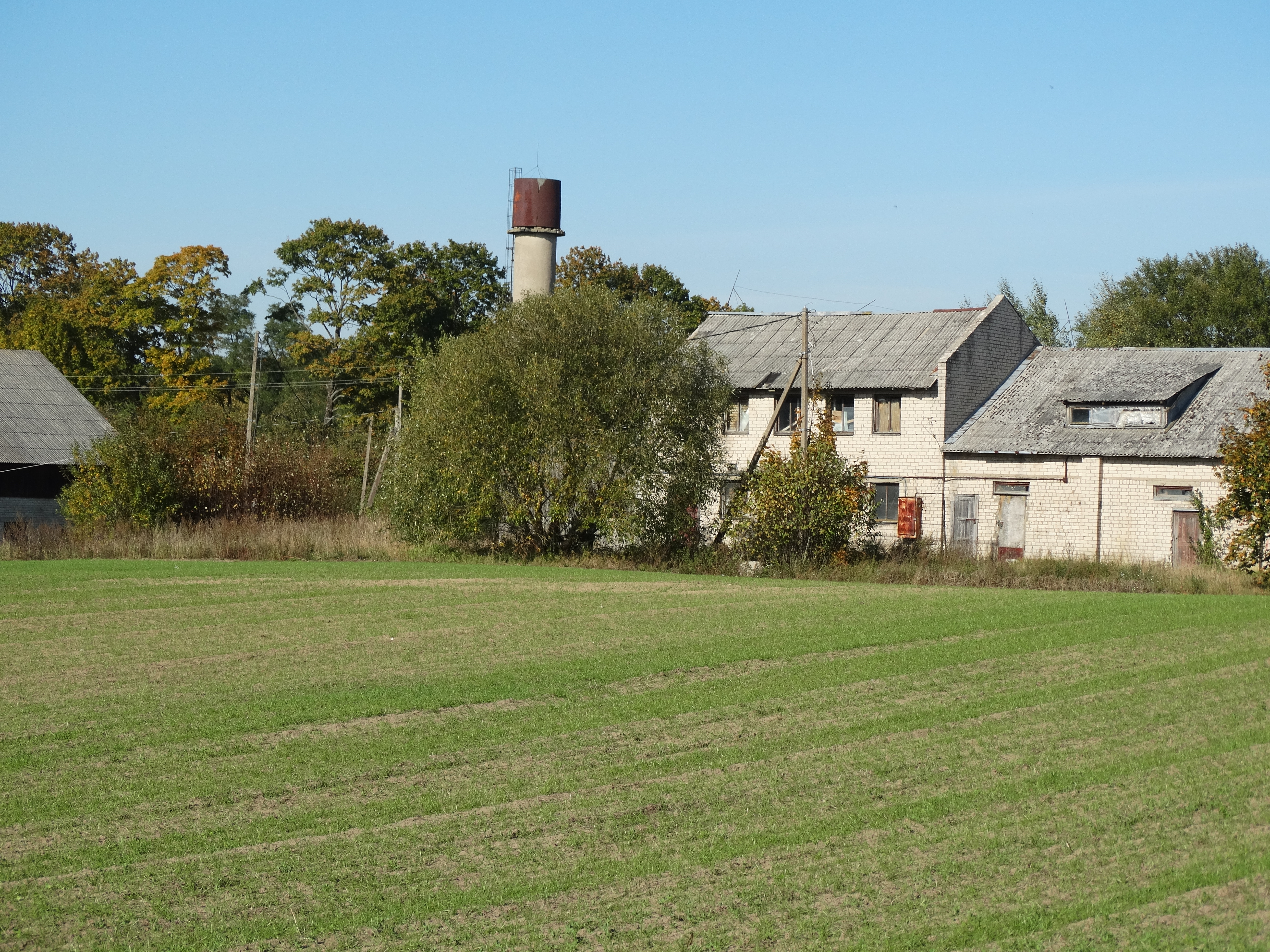 Blinstrubiškiai, Raseiniai District, Lithuania